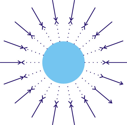 Opposite Particle Streams and 1/r²